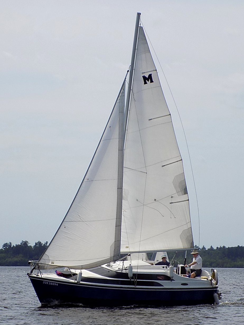 A MacGregor 26M sailboat.